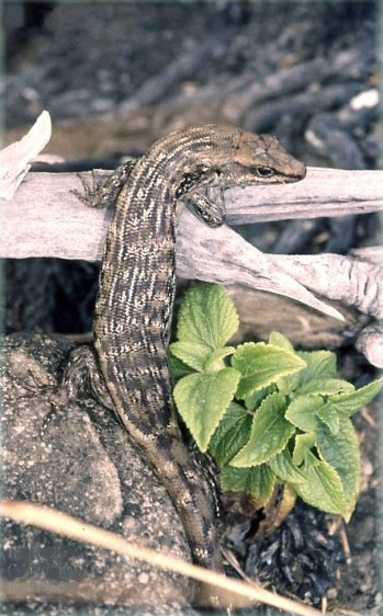 Telfair Skink (Leiolopisma telfairi) on Round Island, Mauritius